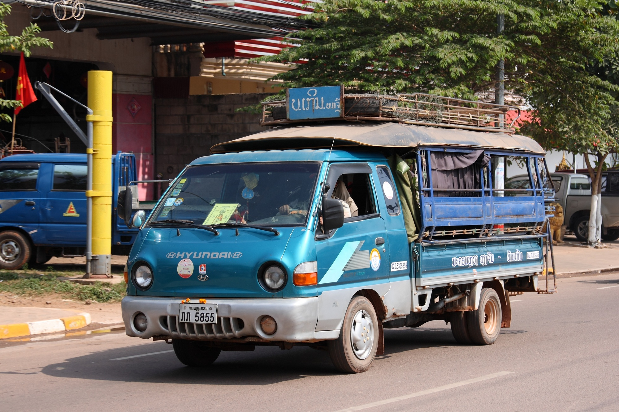 Songthaew in Vientiane, Laos (Hyundai Porter)